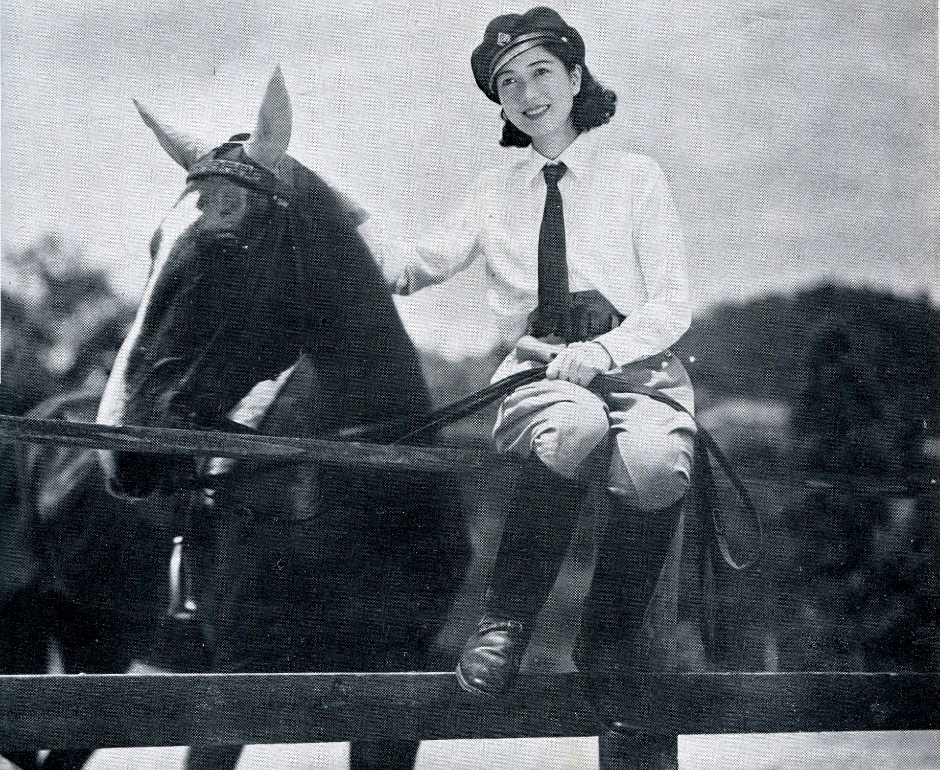 Yukio Todoroki. Portrait of actress. The photo is from Kinema Shunpo, July 11, 1937.